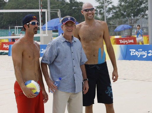 President George W. Bush pauses with U.S. Men's Beach Volleyball's Todd Rogers, left, and Phil Dalhausser as he visited the practice session Saturday, Aug. 9, 2008, at Beijing's Chaoyang Park prior to their first matches of the 2008 Summer Olympic Games.